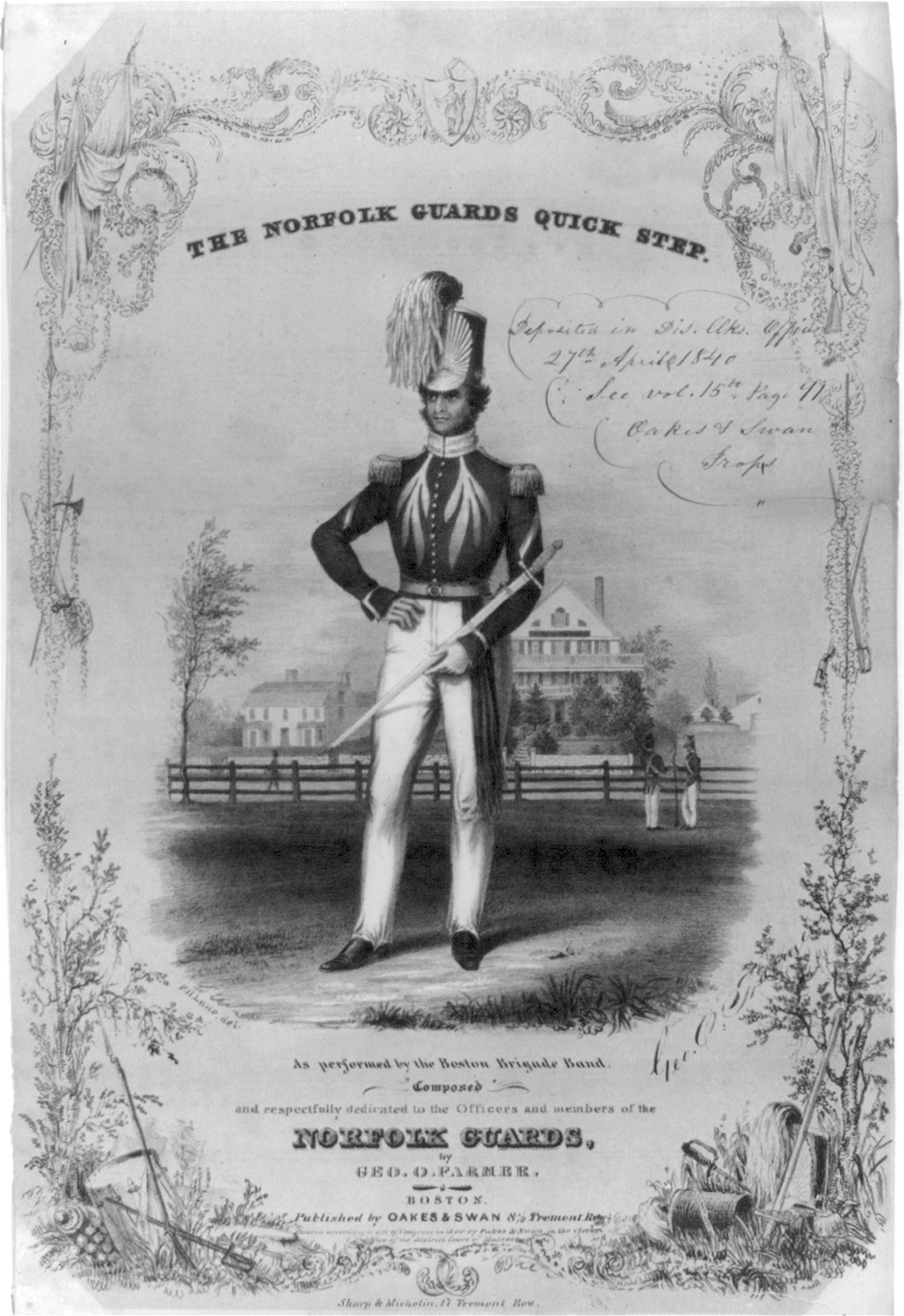 TITLE: The Norfolk Guards Quick Step, as performed by the Boston Brigade band... MEDIUM: 1 print : lithograph, tinted. CREATED/PUBLISHED: 1840. NOTES: Lithograph by Sharp & Michelin, 17 Tremont Row, Boston REPOSITORY: Library of Congress, Prints and Photographs Division, Washington, D.C. 20540 USA